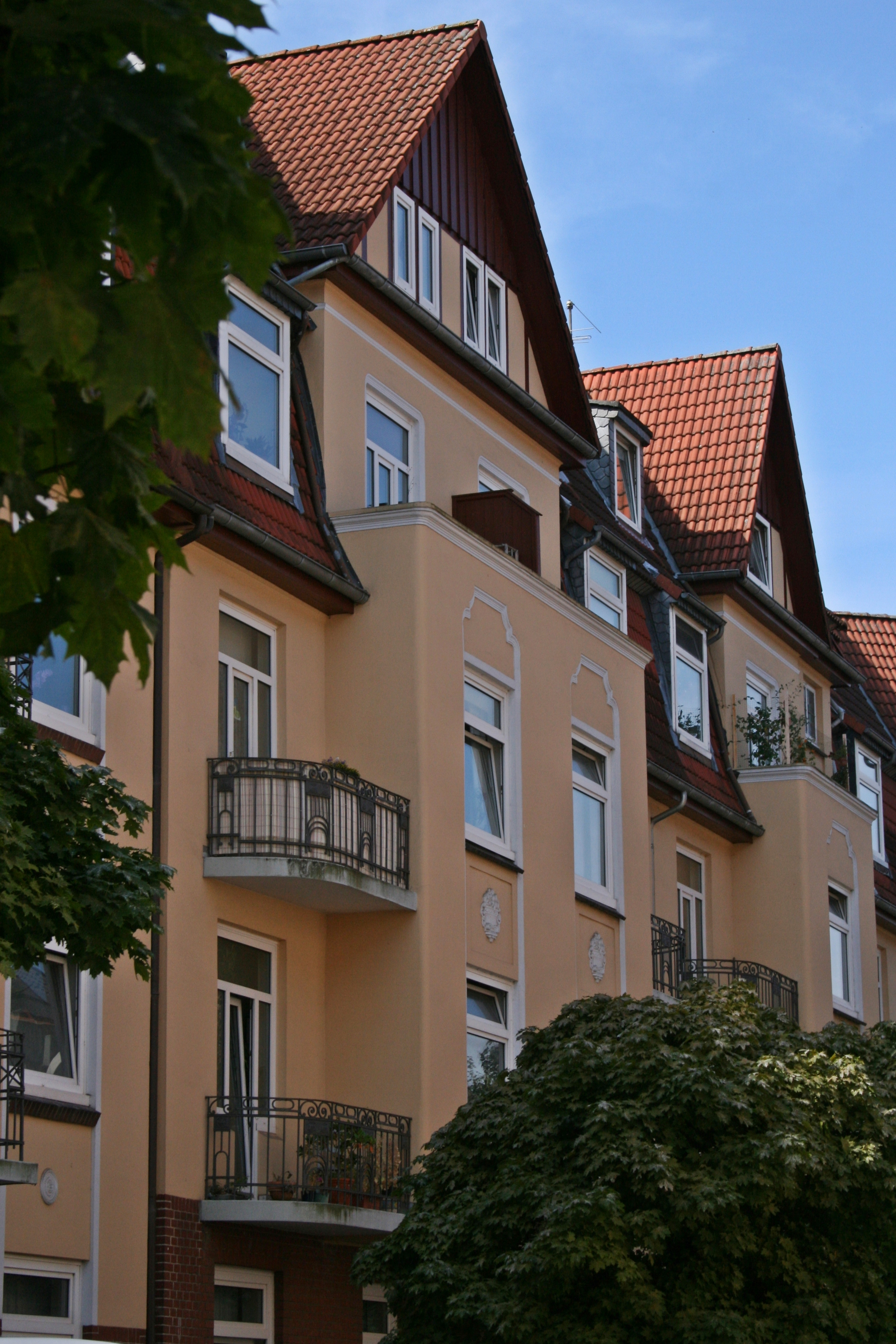 House Soltaustraße 12 in Hamburg-Bergedorf. Carl Boldt, member of the resistance against Nazism, lived in this house. A Stolperstein is placed in front of the house.